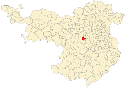 Banyoles